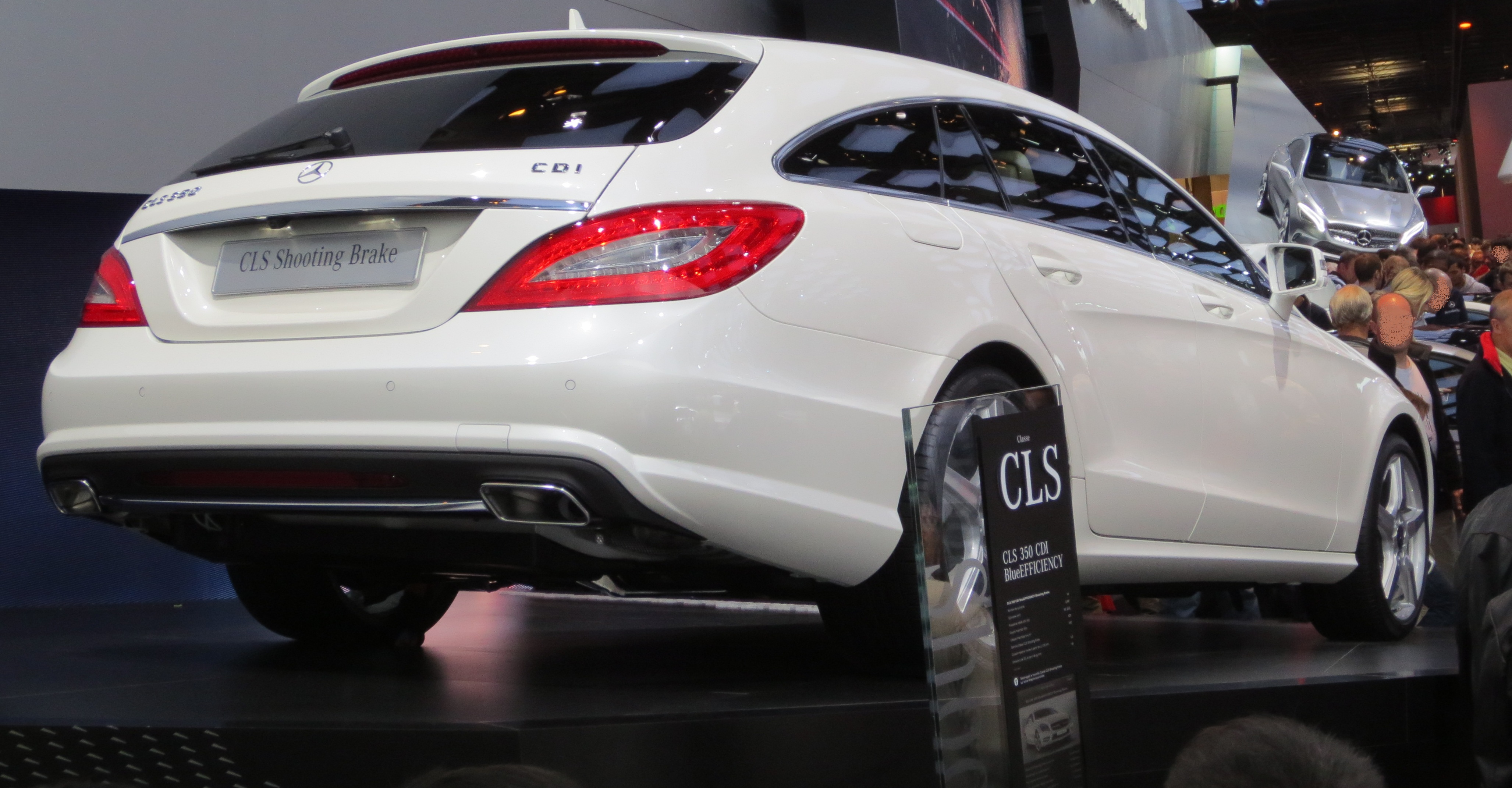 Subject: Mercedes-Benz CLS Shooting Brake Author: Luc106 Date:September 29th, 2012 Event: Salon de l'Automobile 2012 Place/Country: Parc des Expositions, Porte de Versailles, Paris (France) I release all rights in the public domain.